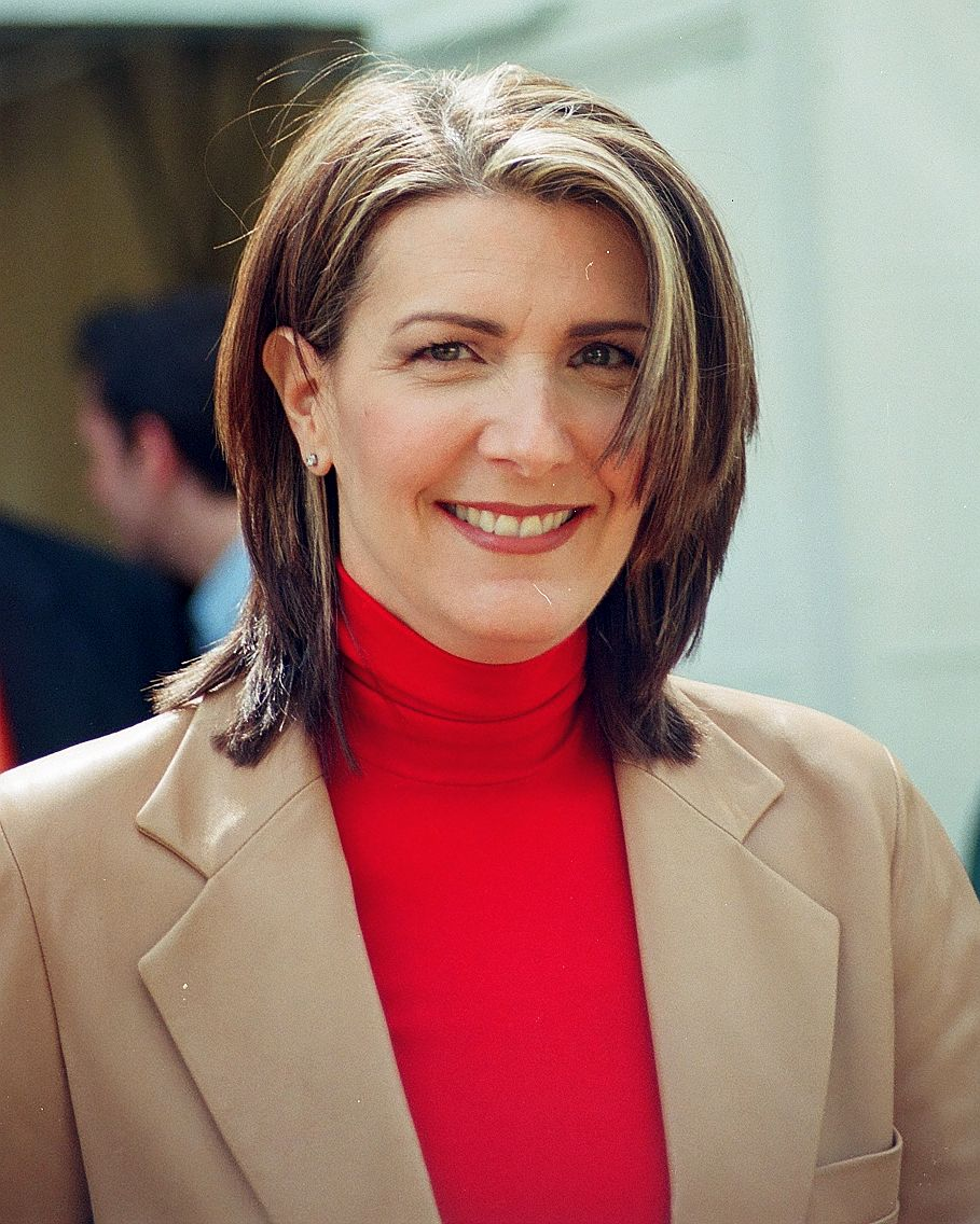 Wash D.C. 2000 Library of congress 200 anniv.